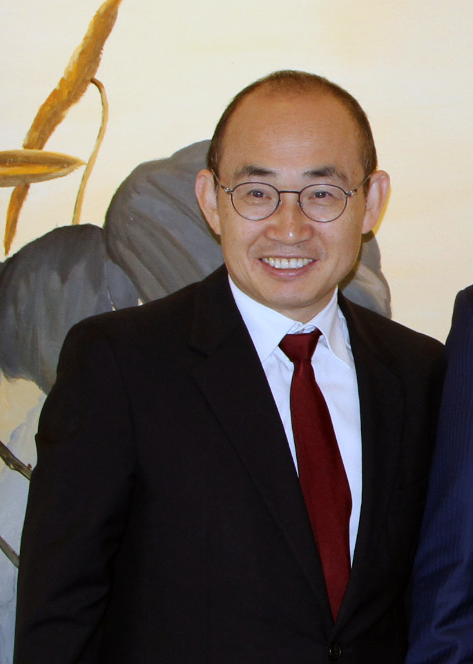 Pan Shiyi, CEO of SOHO China, with Ambassador Terry Branstad on December 6, 2017 中文（中国大陆）: SOHO中国CEO潘石屹与美国驻华大使泰里·布兰斯塔德的合影，摄于2017年12月6日